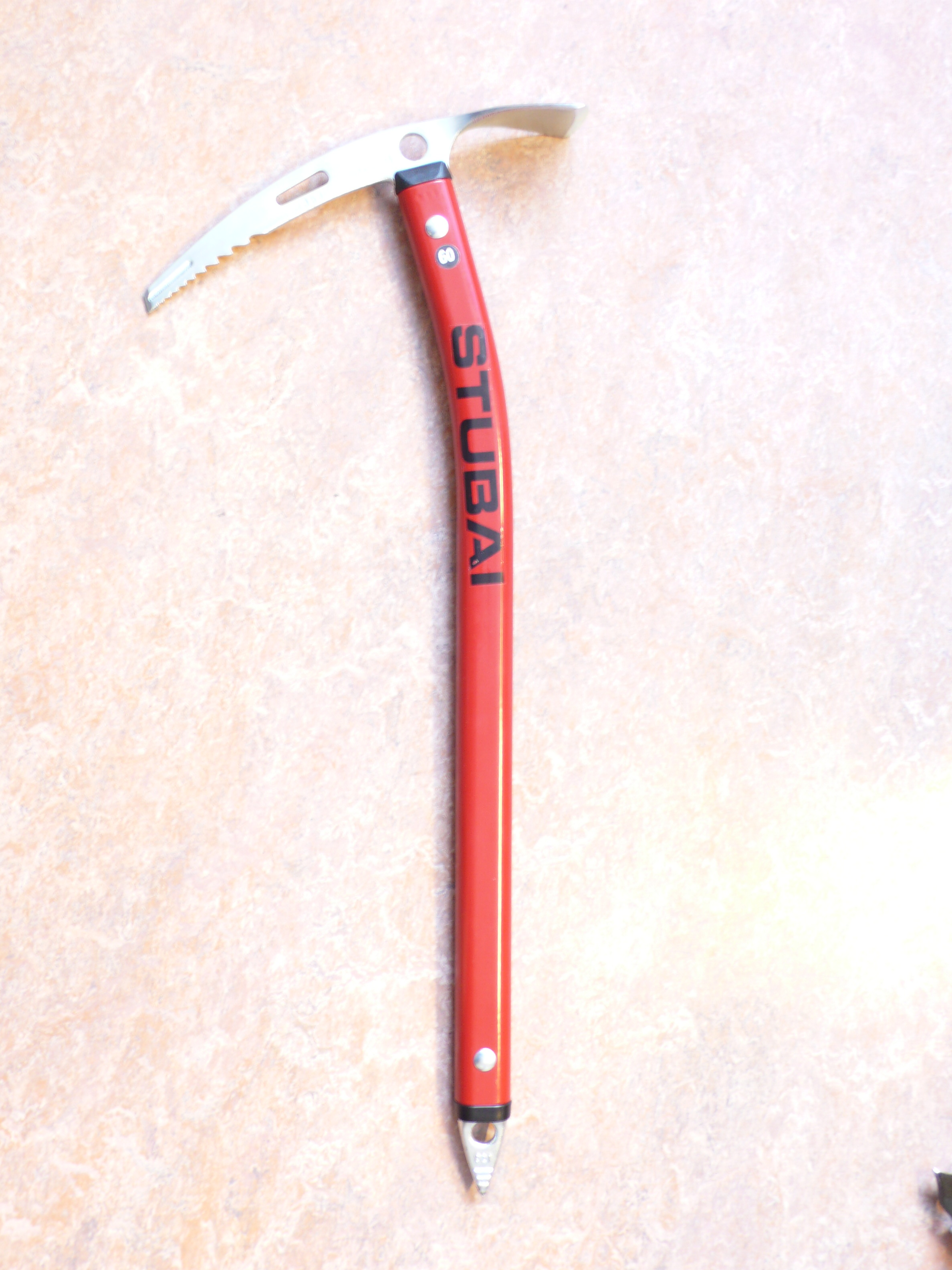 Modern ice axe with bent handle